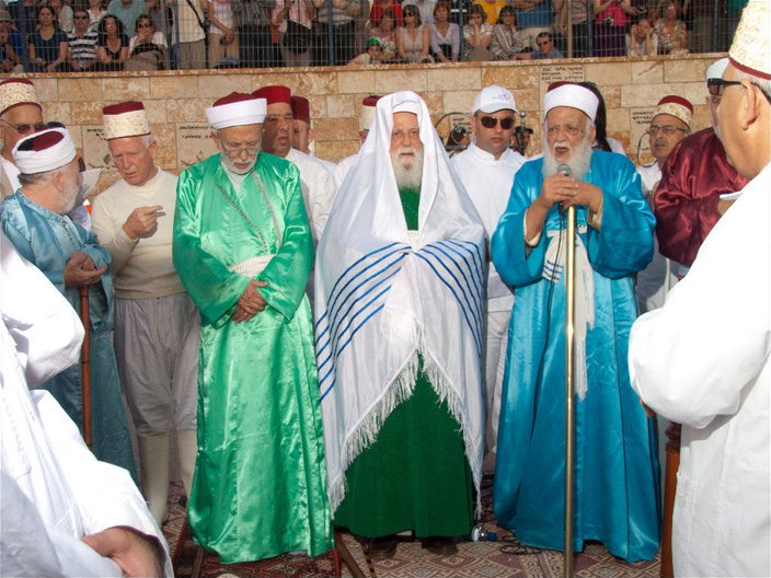 The whole documentary set can be seen here: [1] WARNING!!!! This set contains explicit bloody images which may offend the viewer's sensitivity. Your Discretion Is Advised. Samaritans celebrate Passover on Mt. Grizim. For the Samaritans Mount Grizim, not Jerusalem, is the one true sanctuary chosen by Israel's God. Their community counts about 700 people. The Passover sacrifice-is the parallel of the Jewish Seder Night. The Samaritans gather around the altar and listen to the high priest's Passover blessing. Given his signal, the nominated people simultaneously sacrifice the animals. Around 50 lambs are sacrificed in one minute. Every Samaritan then puts a drop of blood on his forehead in identification with the Israelites drawing blood on their doorframes so that the angel of death would Pass Over their houses and spare the lives of their firstborns. Info from: [2]